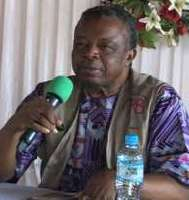 Beni, North-Kivu, DR Congo – The UN-owned Radio in the DRC, Radio Okapi, organized on September 6th, 2018 a live broadcast from Beni, where an epidemic of Ebola has been raging for more than a month. It was in the presence of the Congolese Minister of Health, Oly Ilunga, Professor Muyembe, Epidemiologist, and a crowd of guests who came to participate in this interactive program. The goal is to educate the public about the practices to be observed in order to curb the propensity of the virus in this territory. Photo MONUSCO/Aqueel Khan